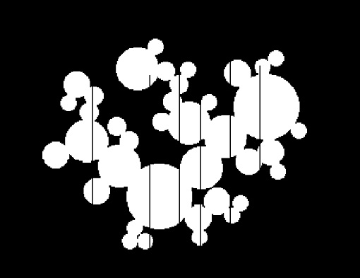 Image filtered by the logical filtration.